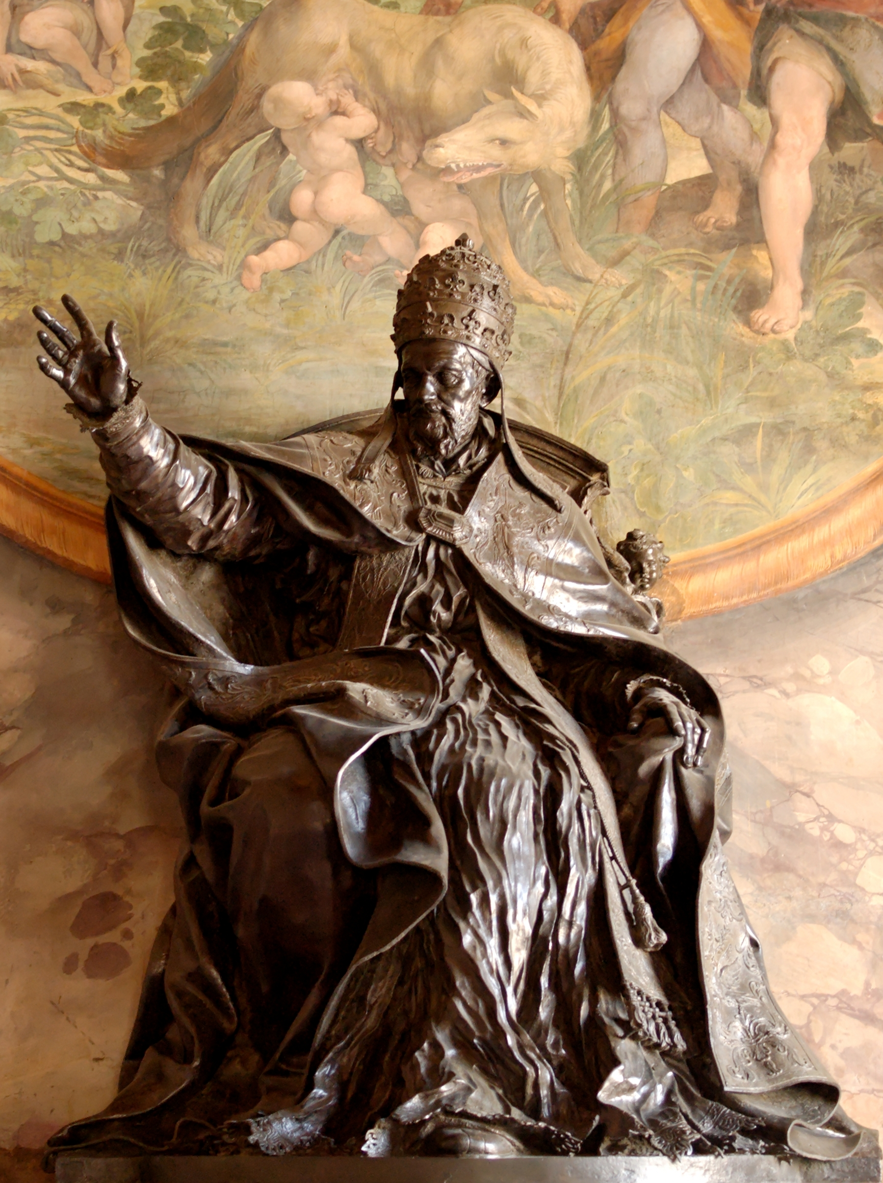 Pope Innocentius X bu Alessandro Algardi. Bronze, between 1645–1649.